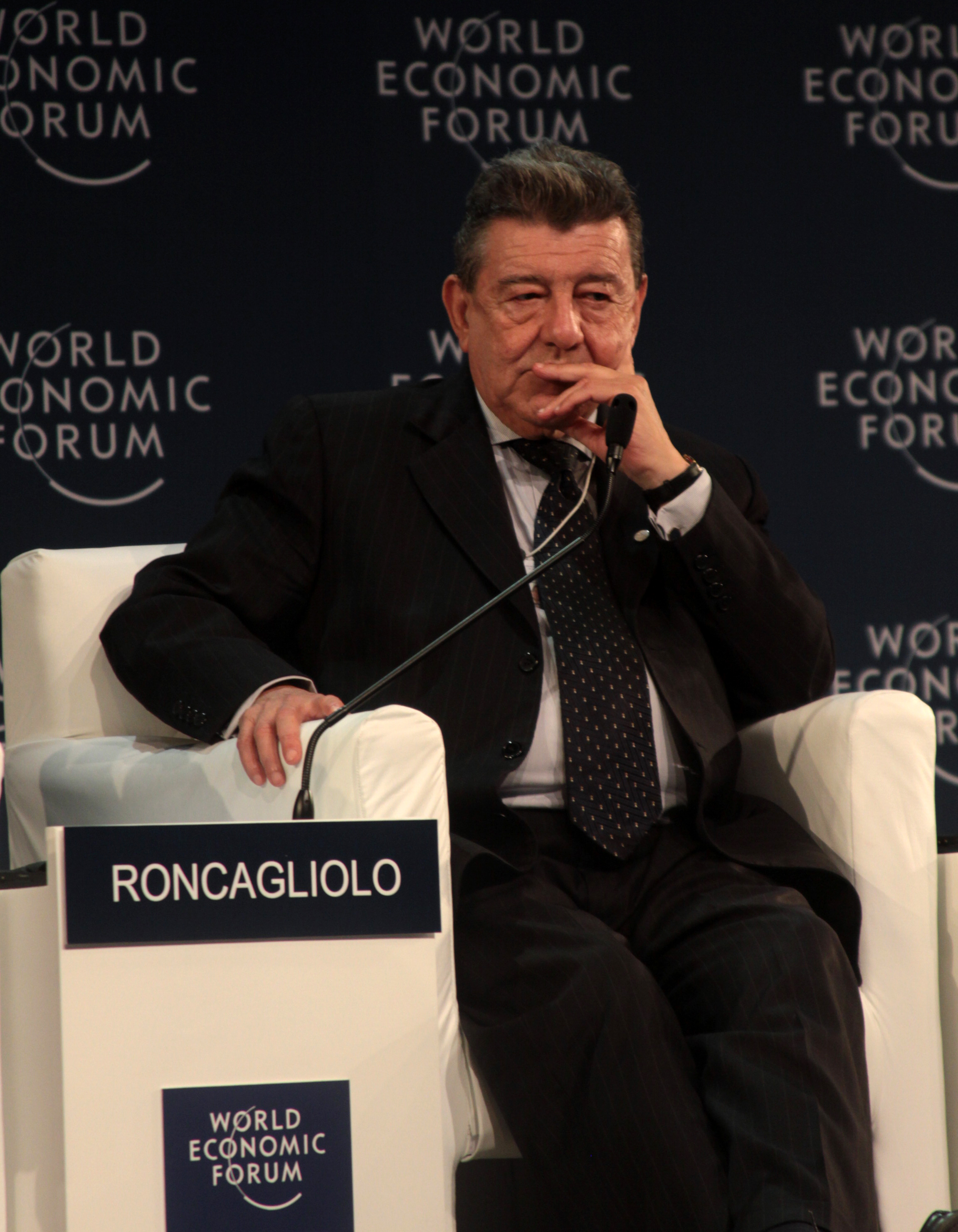 PUERTO VALLARTA/MEXICO, 18APR12 -Rafael Roncagliolo, Minister of Foreign Affairs of Peru. Copyright World Economic Forum ( by Josef Kandoll Wepplo